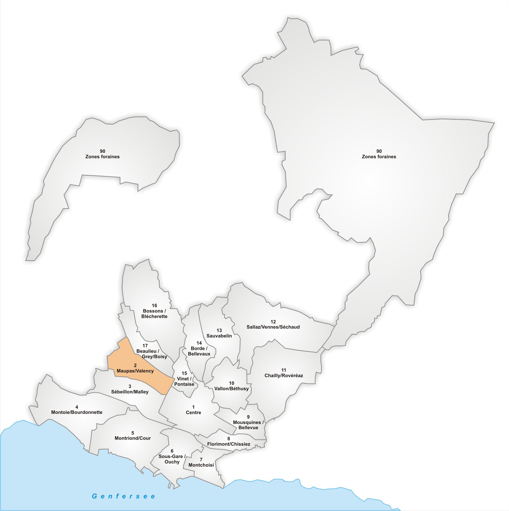 Lausanne Quarter 2